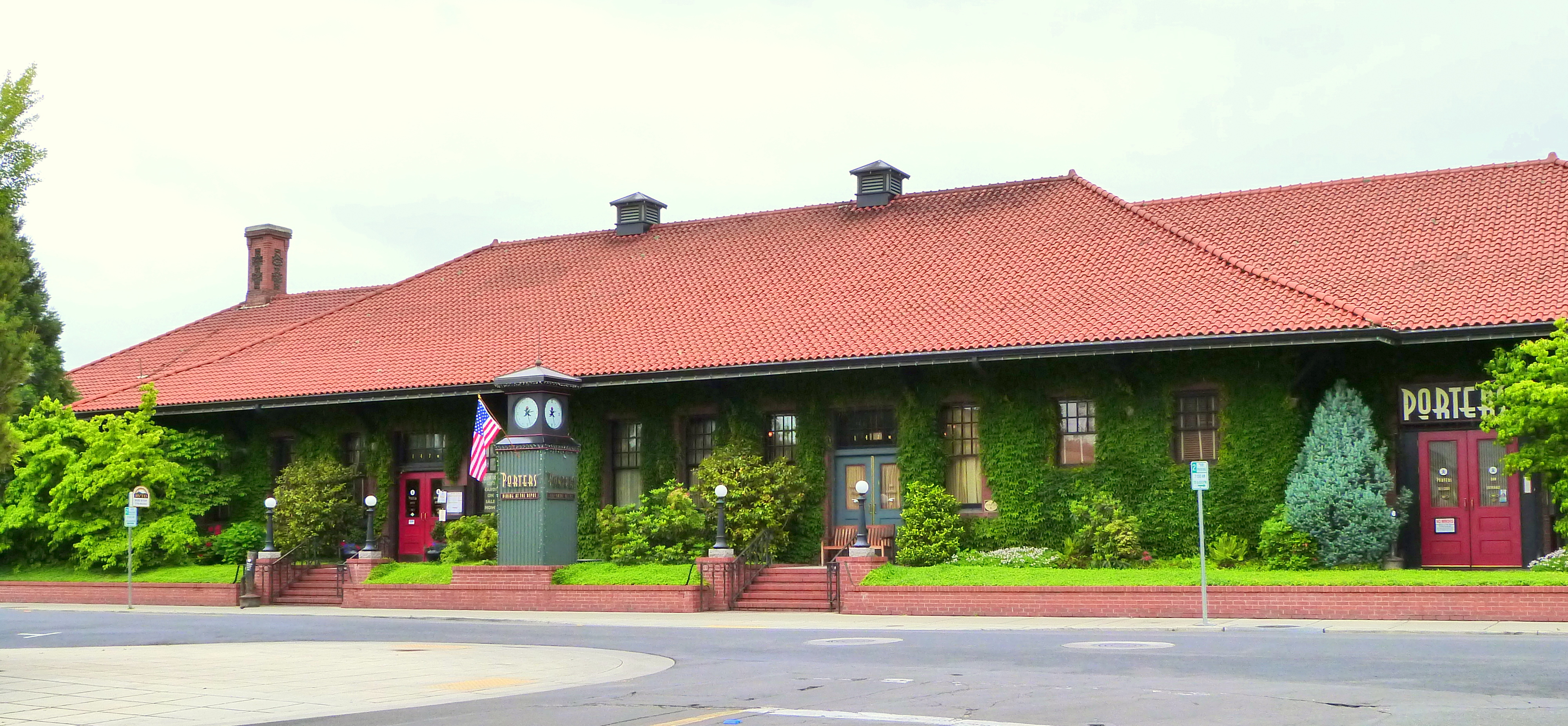 The historic Medford Southern Pacific Railroad Passenger Depot (built 1910), located at 147 North Front Street in Medford, Oregon, United States, is listed on the US National Register of Historic Places. It is additionally listed as a contributing resource in the National Register-listed Medford Downtown Historic District. As of the photo date, the building has been adapted for use as a restaurant.